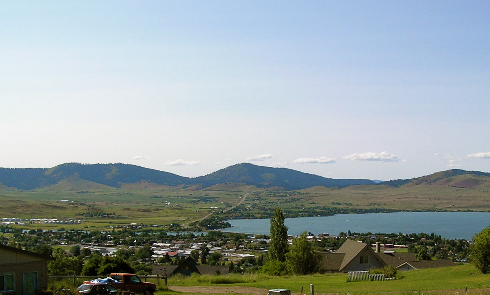 Polson and Flathead Lake viewed from the southeast, looking WNW